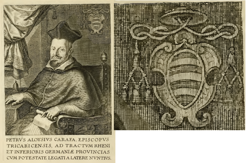 The image of Petrus Carafa, bishop of Tricarico